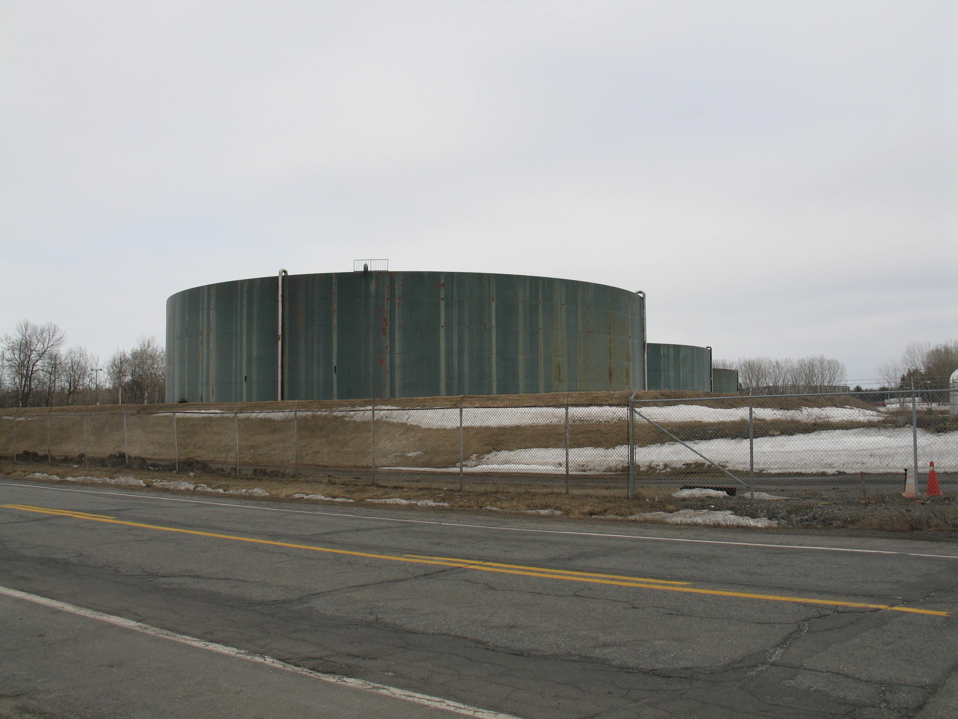 Oil tanks at the Tracy Thermal Generating Station in Quebec.